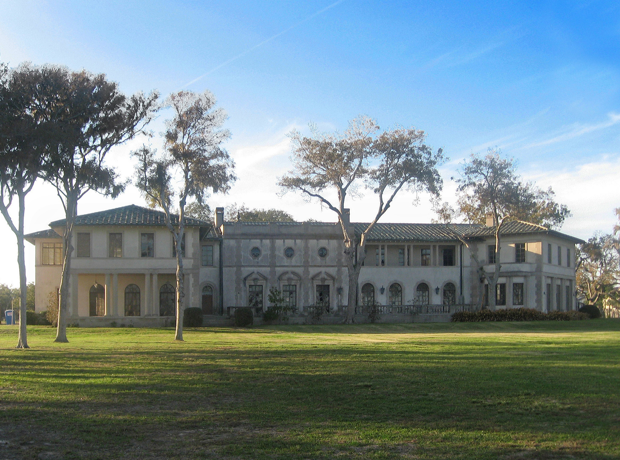 Lumber, oil, and ranching tycoon James Marion West (1871-1941) and his wife, Jessie Dudley (1871-1953), hired eminent Houston architect Joseph Finger to design this 17,000-square foot house as headquarters for their 30,000-acre ranch. Built in 1929-30, it is an excellent example of the Italian renaissance revival style. It features exceptional ironwork by Berger & Son, classical pediments and arched windows. This view is from the rear which faces the NASA 1 highway